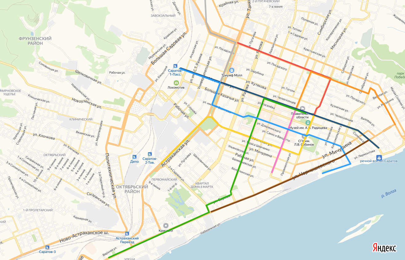 Scheme of electric tramway system in Saratov, Russia, according to project